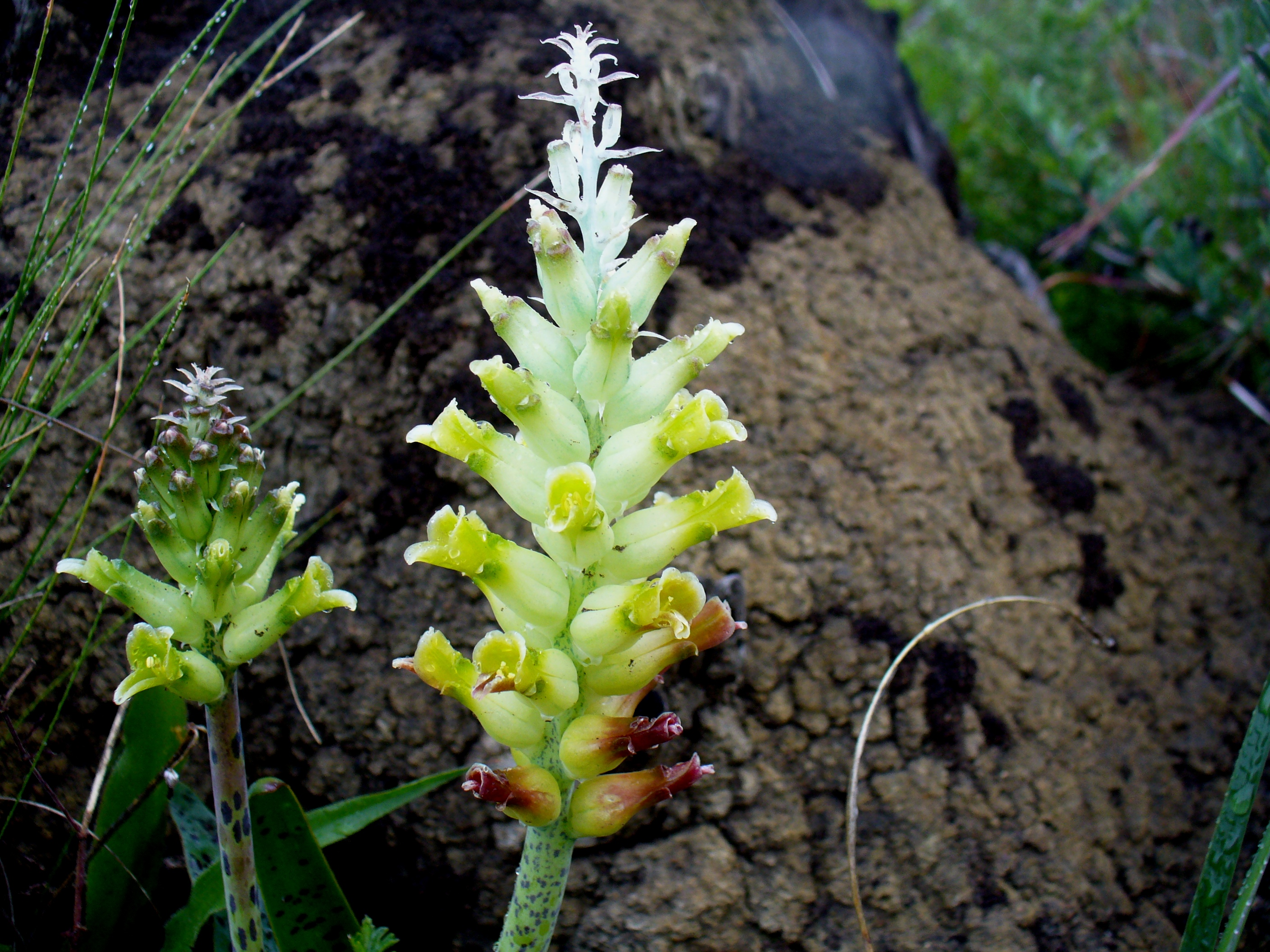 wild hyacinth Signal Hill Cape Town